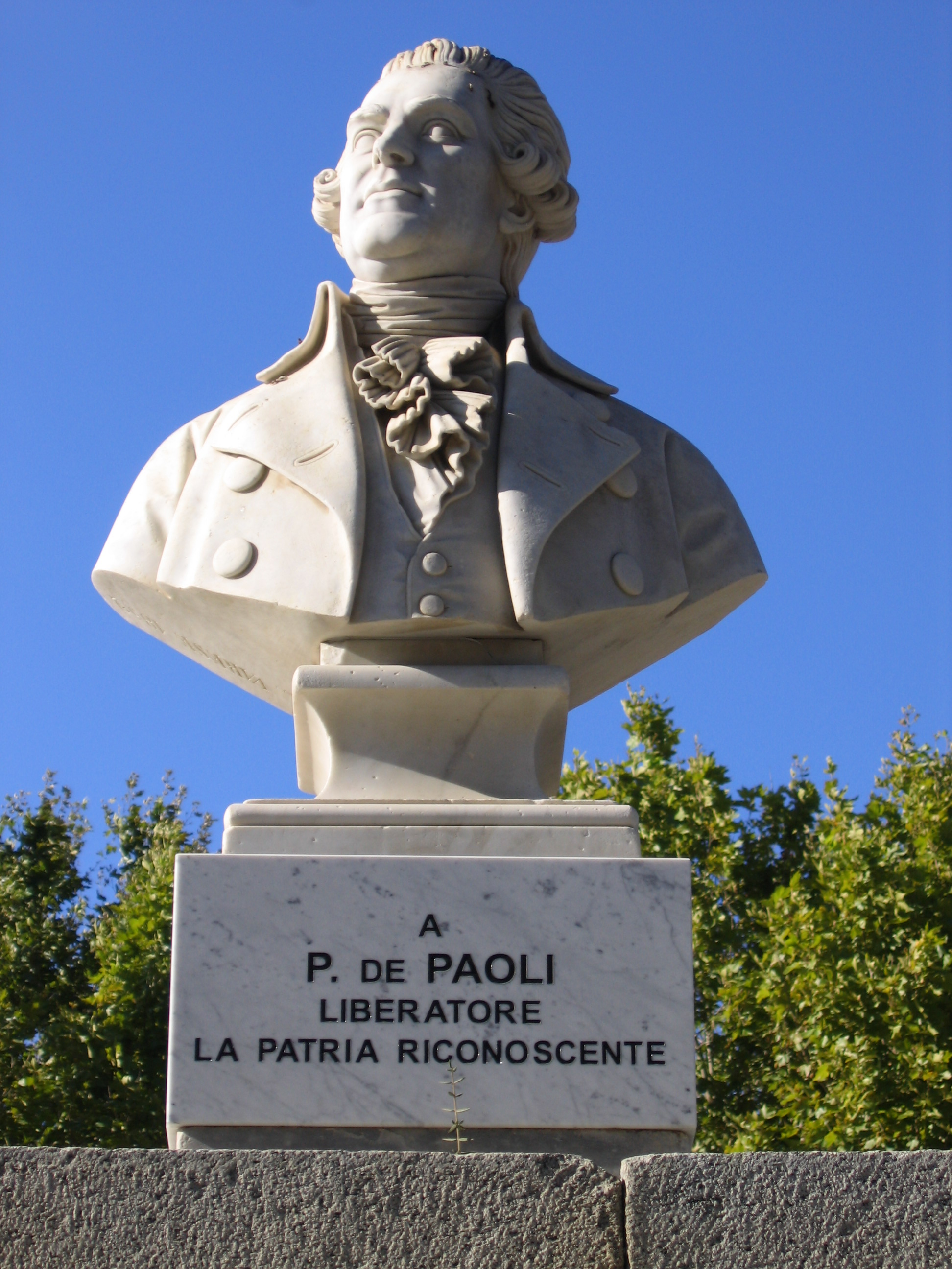 Sculpture of Pascal Paoli in l'Ile Rousse